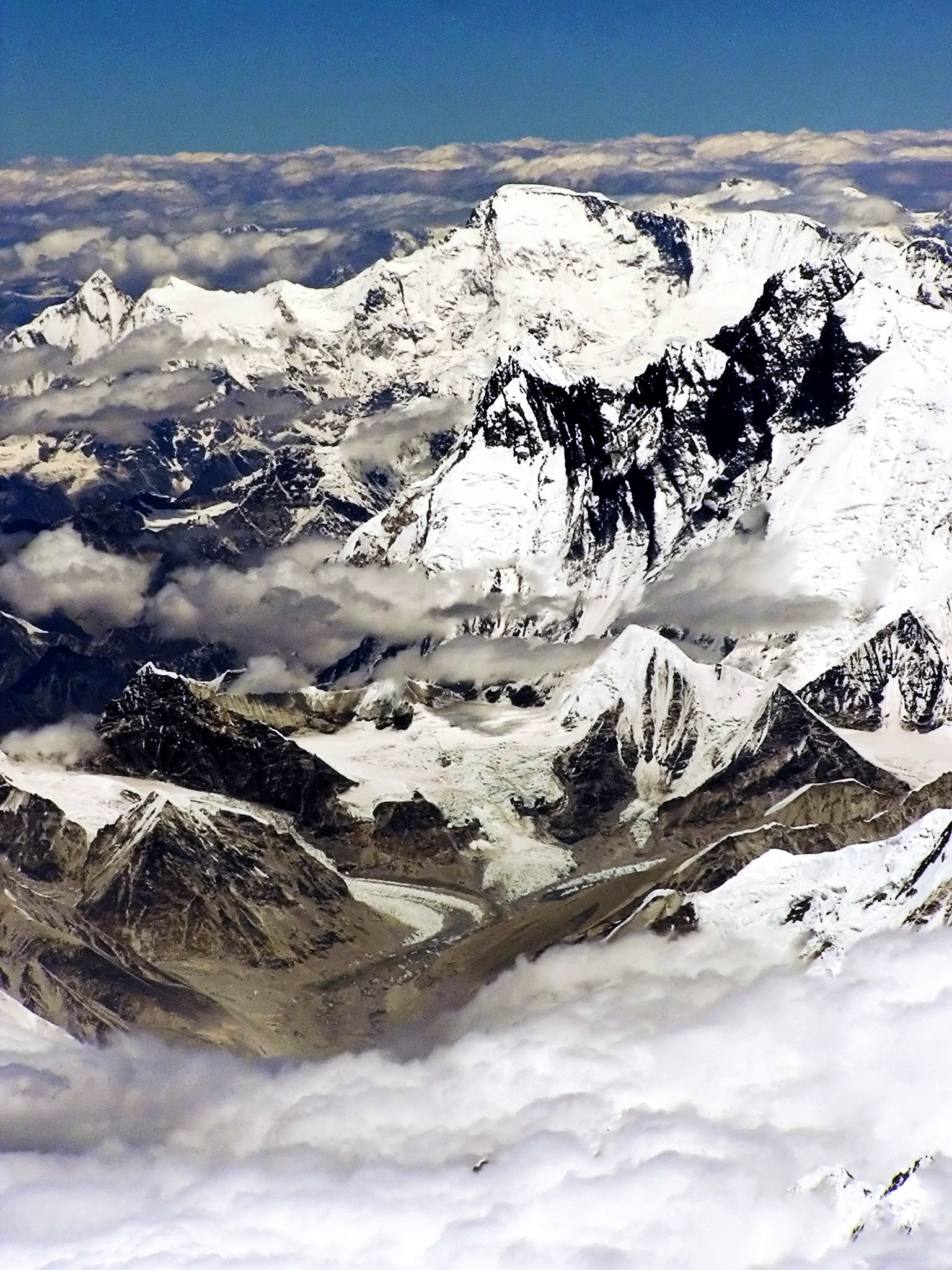 Himalayas 15 from airplane.